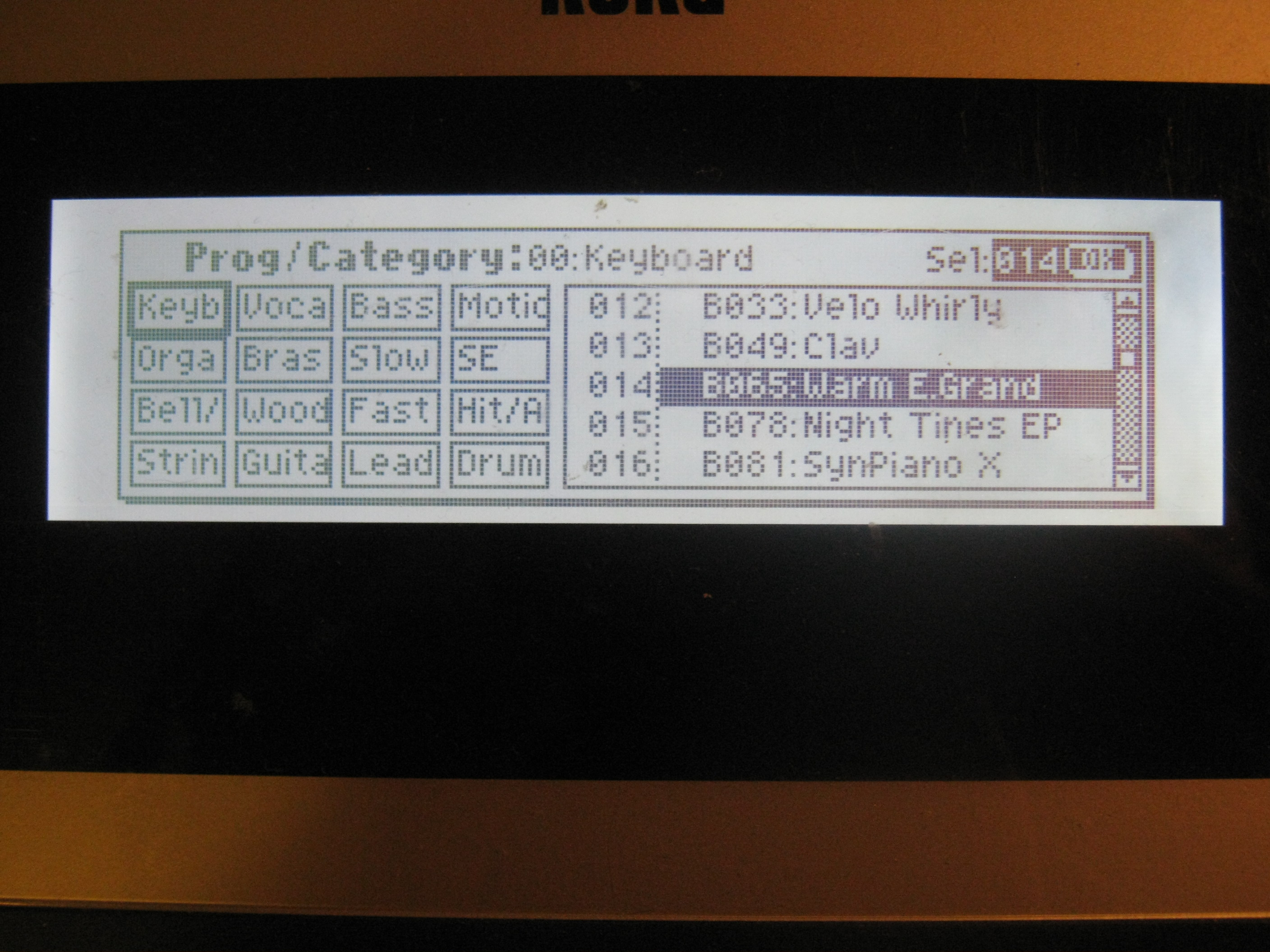 Korg X50 - display, PROG - category